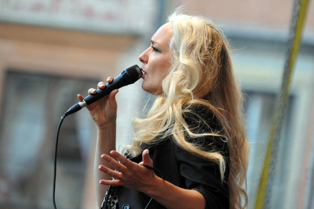 Danish jazz vocalist Caecile Norby performing in The Old Town Square of Warszawa on August 20, 2011